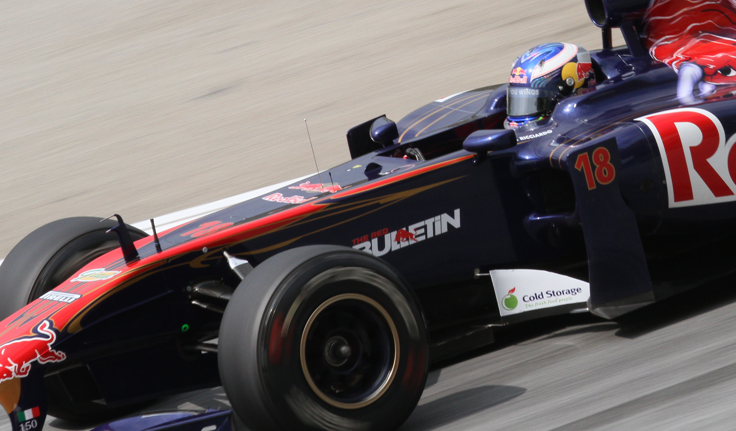 Formula One 2011 Rd.2 Malaysian GP: Daniel Ricciardo (Toro Rosso) during the first practice session on Friday.